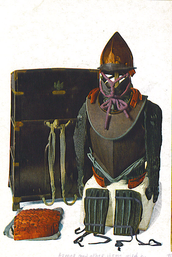 Armour and other items used by Tokugawa Ieyasu at the Battle of Sekigahara -- from collection of Nikkō Tōshō-gū.